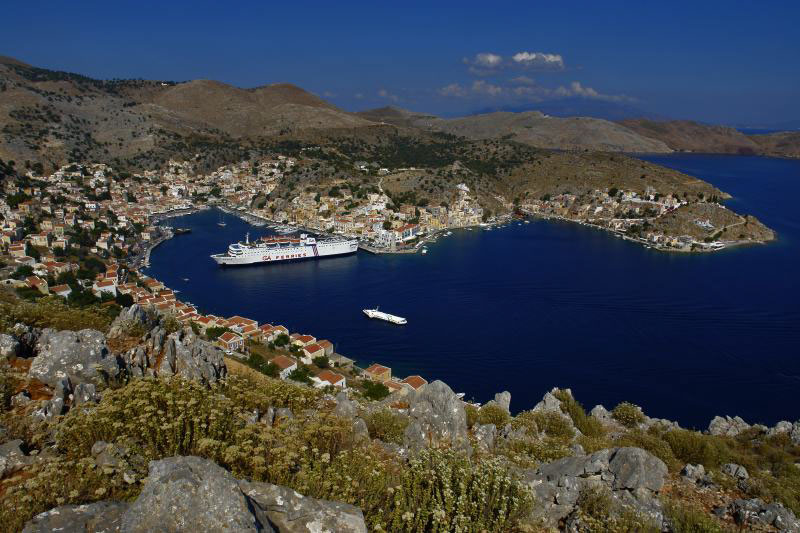 A mountains view of the harbor of Symi, Island of Symi, Greece